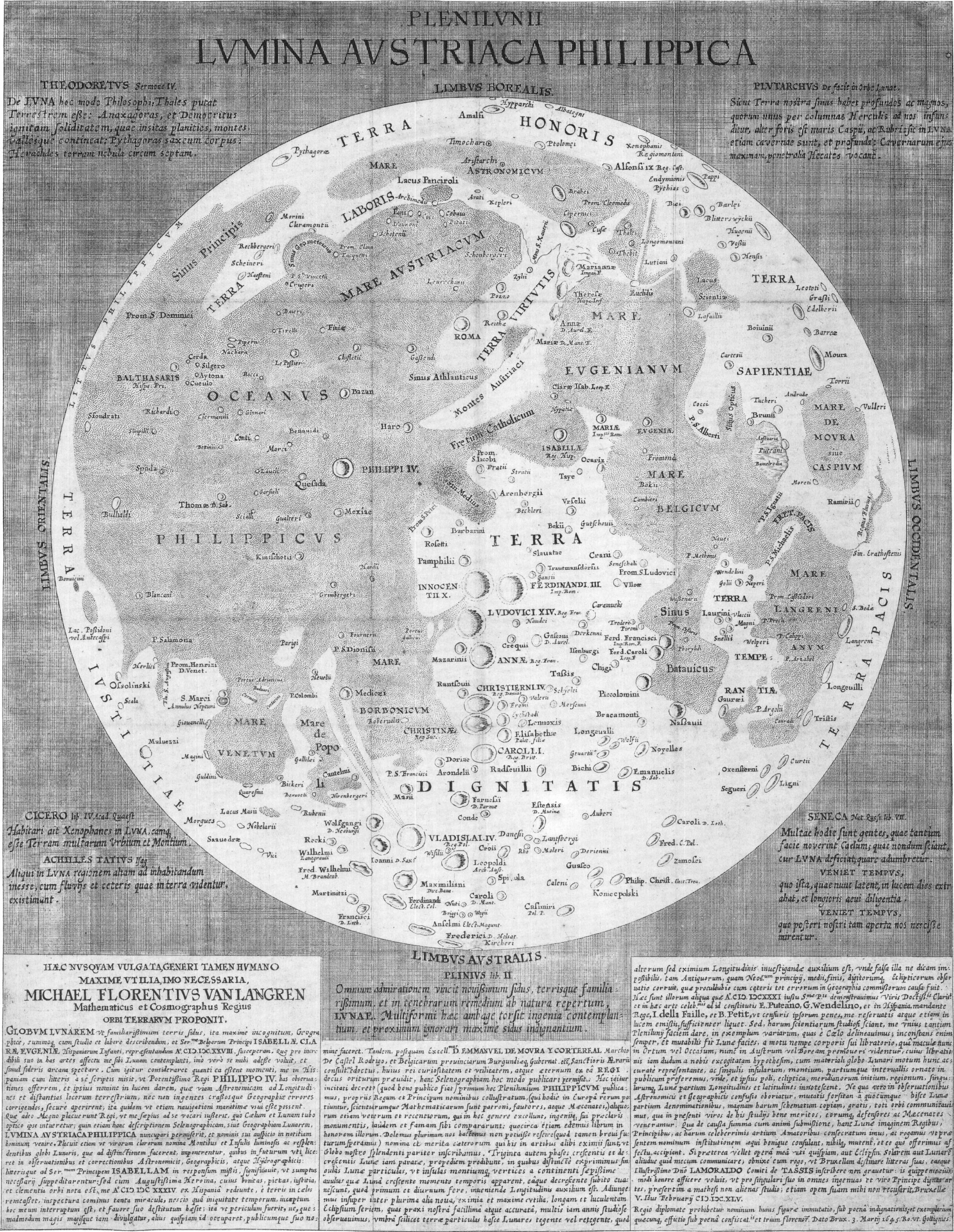 Map of the Moon, published by Michael van Langren in 1645 in his book Plenilunii lumina Austriaca Philippica